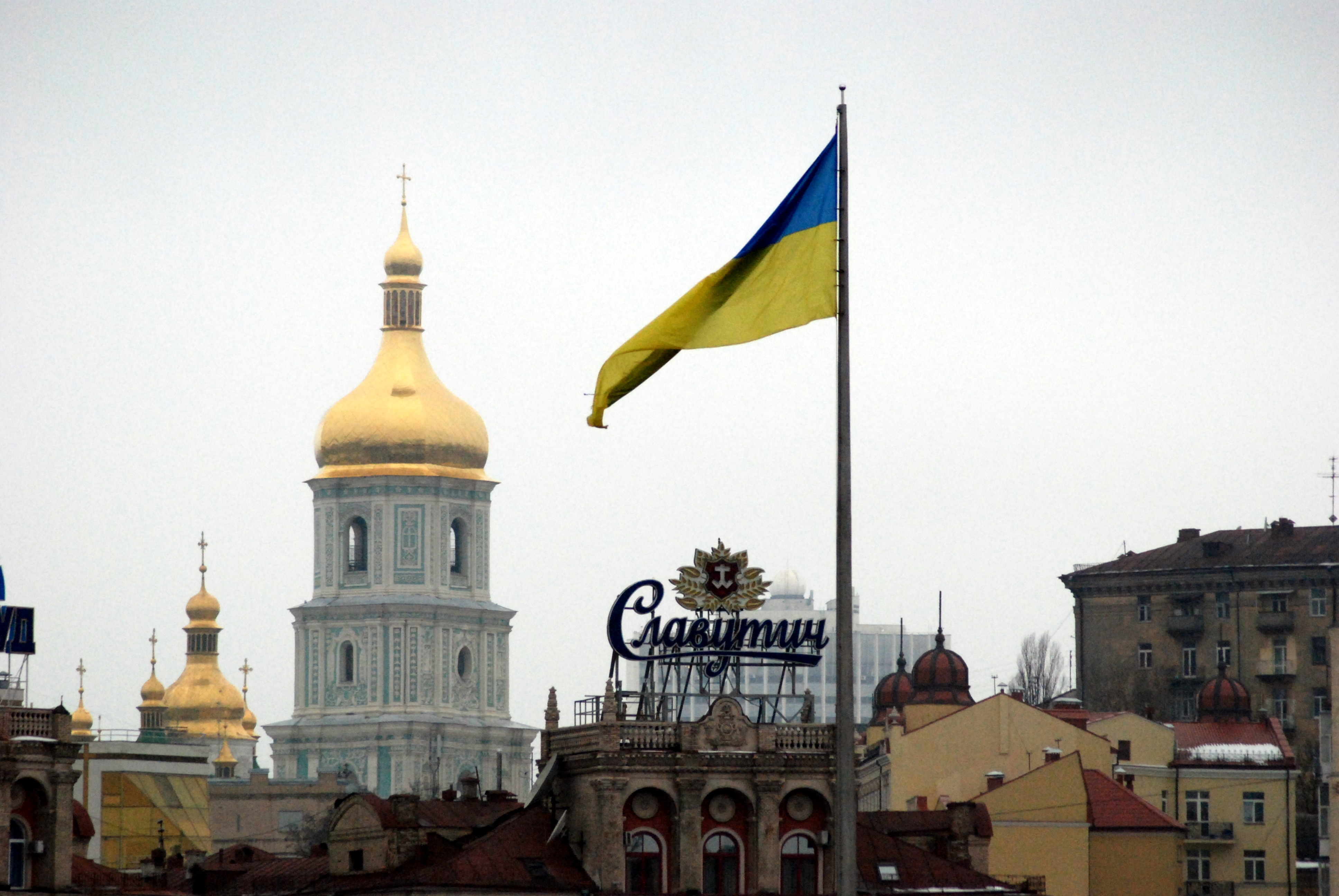 The Flags of Ukraine waving over Kiev's Maidan Nezalezhnosti.